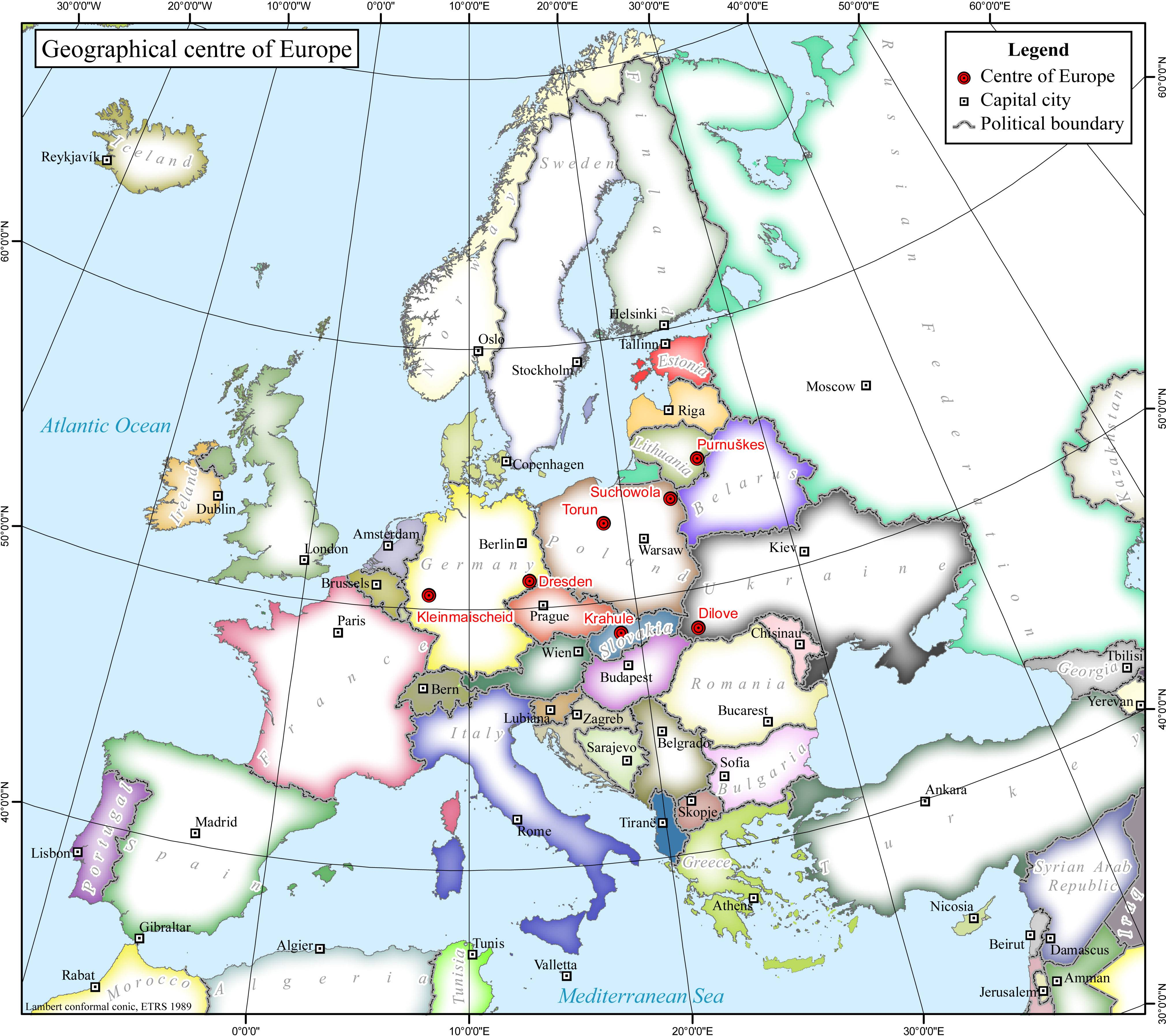 The changing geographic centre of Europe (see article). Sources: United Nations Cartographic Section for political boundaries, ESRI for populated places, Wikipedia for the coordinates of the centre of Europe. Map projection: Lambert conformal conic (ETRS 1989).